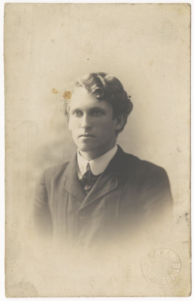 Portrait of Lloyd Rees